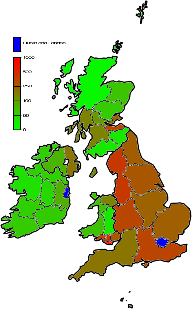 A population density map of the British Isles using data from cso.ie and